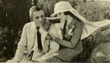 Still from the American film Pink Gods (1922) with James Kirkwood and Bebe Daniels, on page 64 of the December 1922 Photoplay.